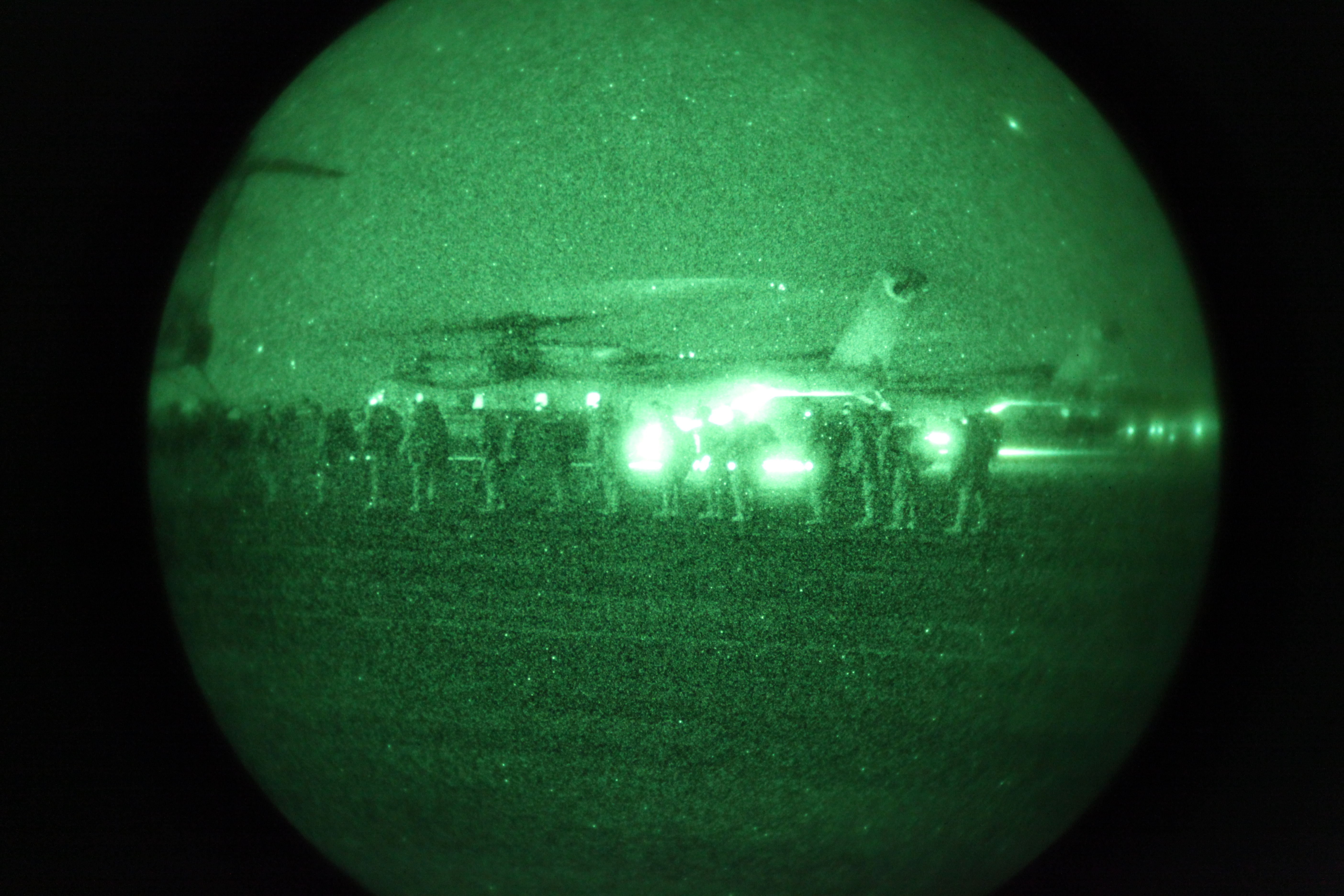 U.S. Marines and Sailors from 1st Battalion, 6th Marine Regiment, wait to load into a CH-53E Super Stallion helicopter with Marine Heavy Helicopter Squadron 466, Marine Aircraft Group 40, Marine Expeditionary Brigade-Afghanistan, Feb. 13, 2010, before deploying to Marjeh, Helmand province, Afghanistan, in support of Operation Moshtarak. The operation is helping to liberate the city from insurgents. (U.S. Marine Corps photo by Sergeant Timothy Brumley/Released)